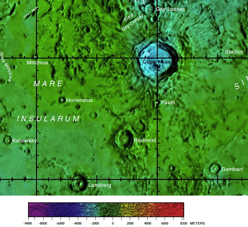 Part of the USGS Near side lunar chart is used for the presentation.